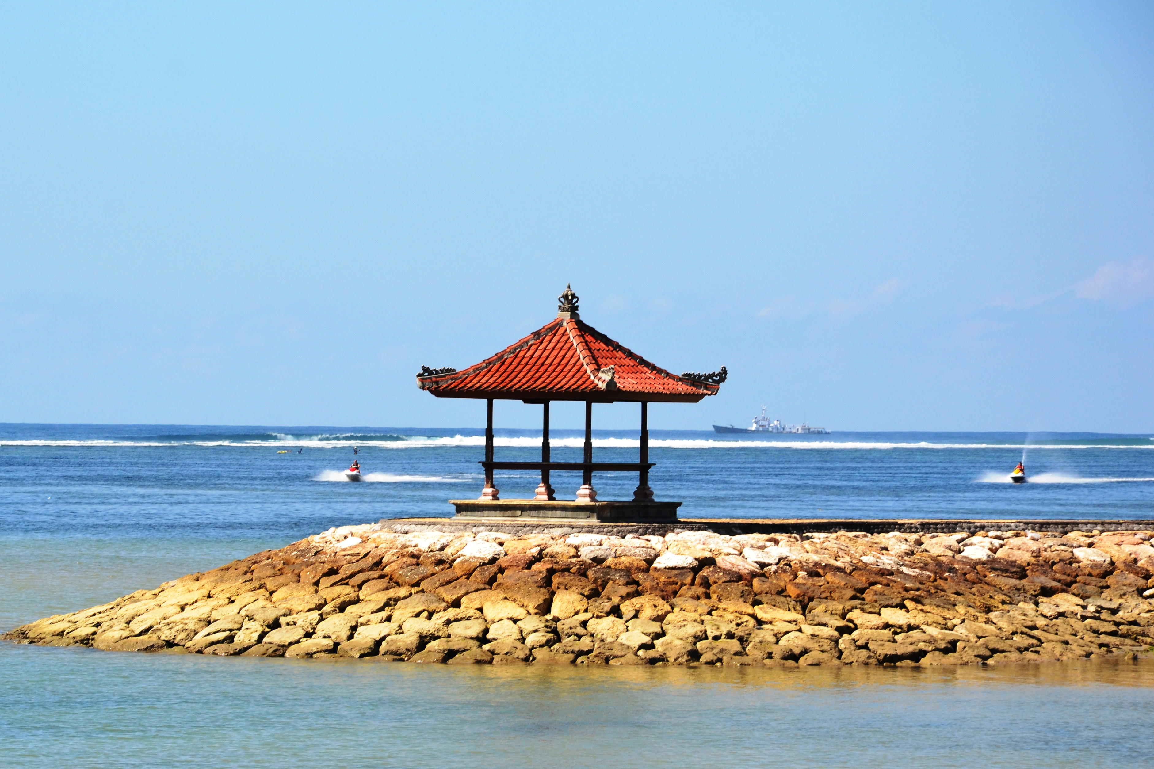 The reef makes the beach off Tanjung Benoa perfect for watersports like jetskis.